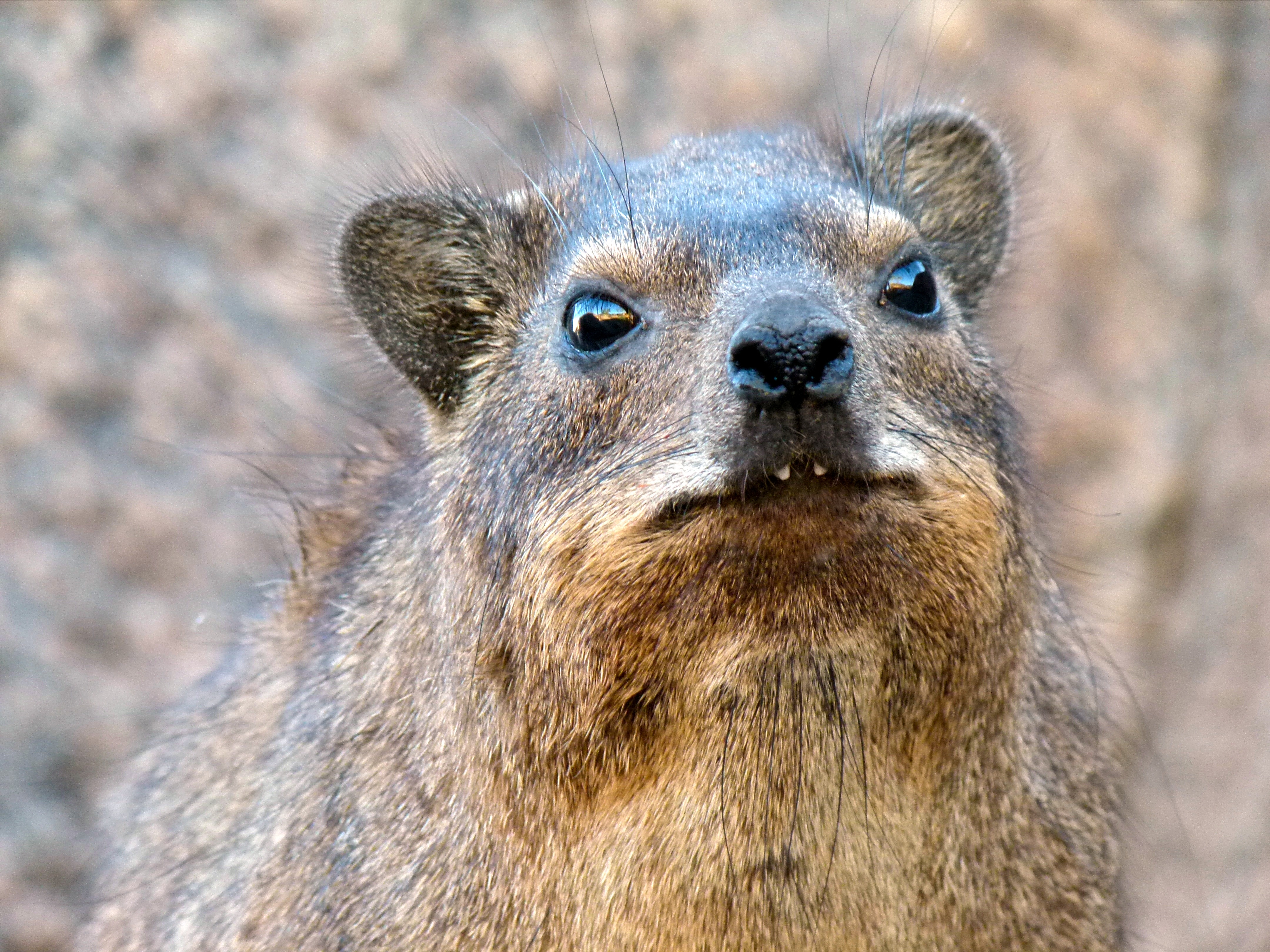 Augrabies National Park, SOUTH AFRICA